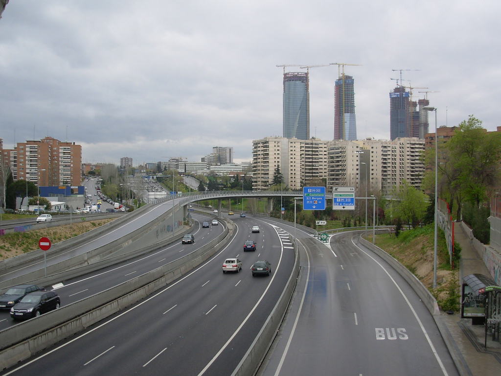 M-30 ring highway in Madrid (Spain). Background right: CTBA buildings under construction.